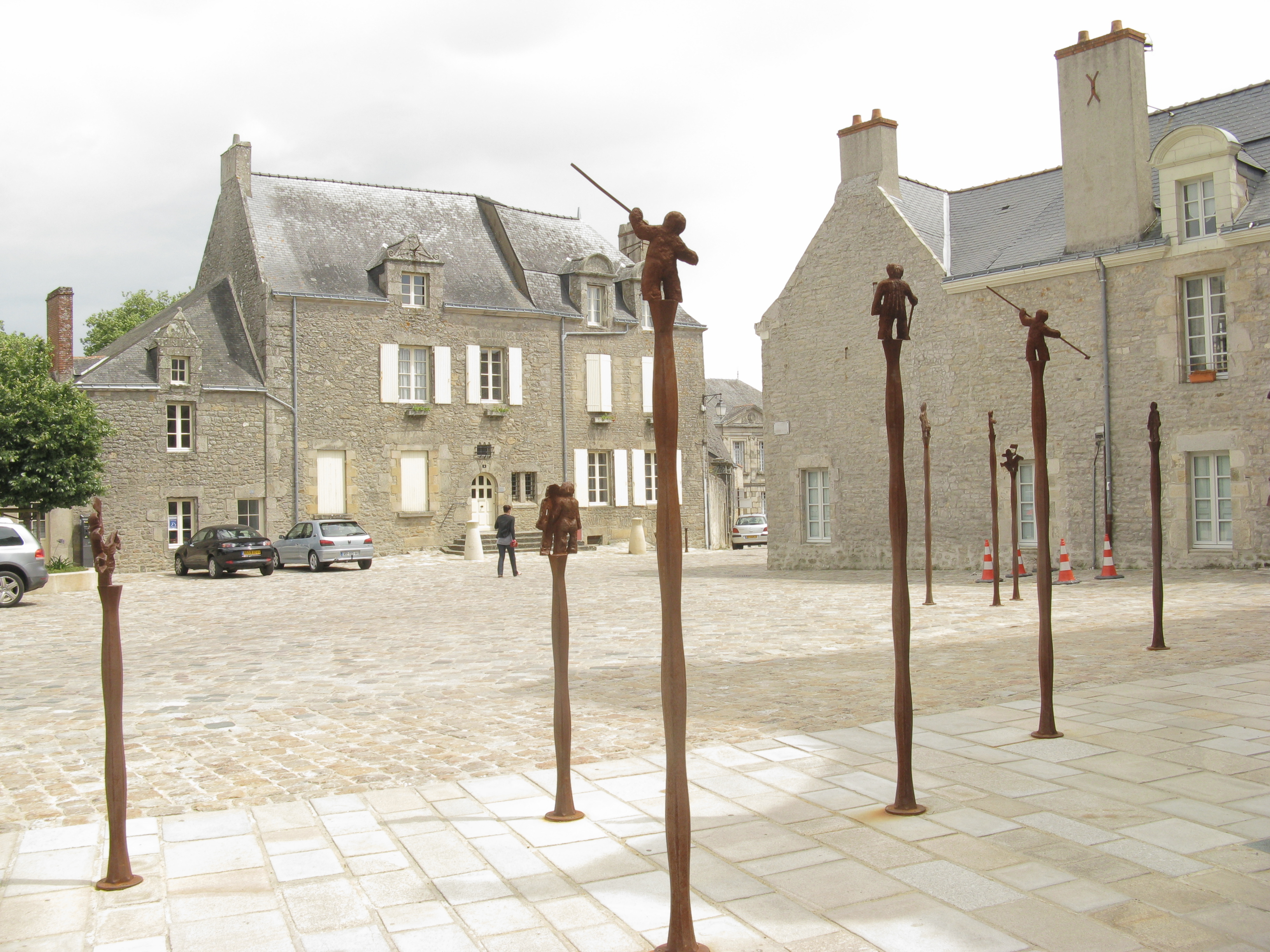 Statuettes on poles at the north side of the Saint-Aubin church in Guérande, Loire-Atlantique, France.